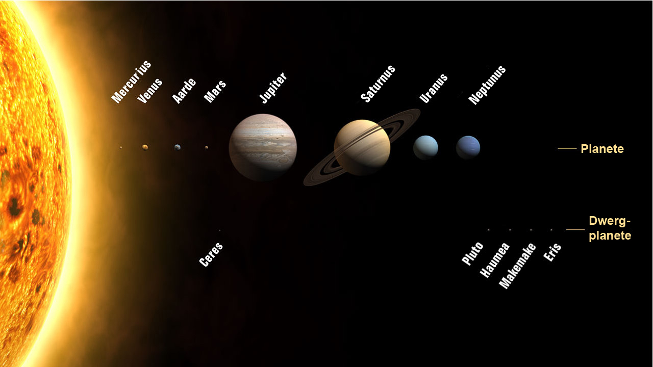 Planets of the solar system